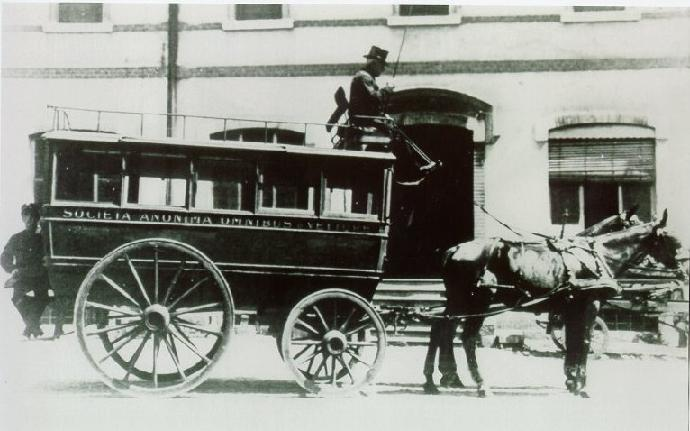 horse-drawn omnibus in Milan before 1890